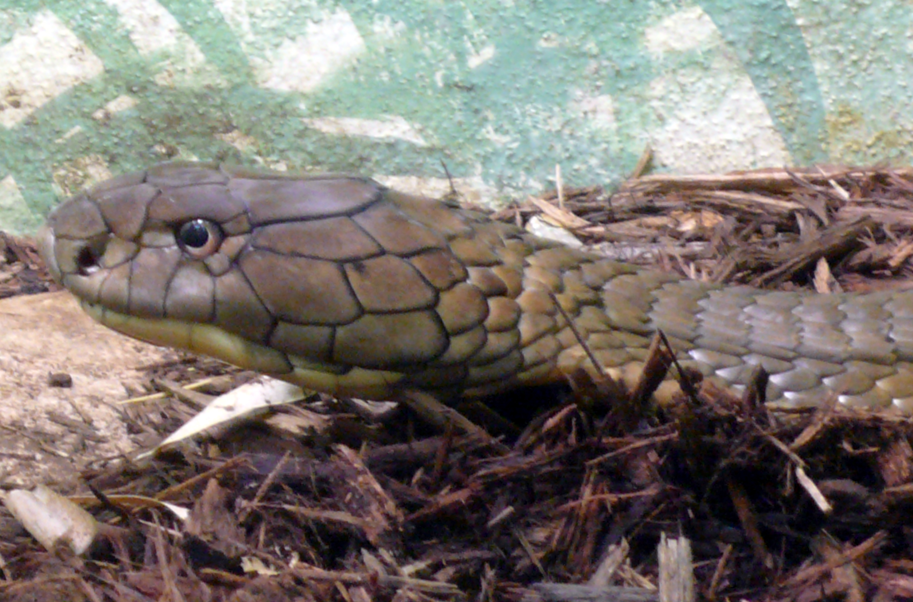 King cobra (Ophiophagus hannah)